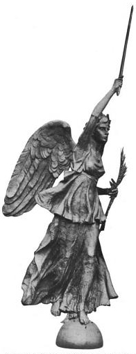 The bronze Goddess of Victory and Peace by Samuel Murray on the The Pennsylvania State Memorial was created from melted-down cannons.[1]